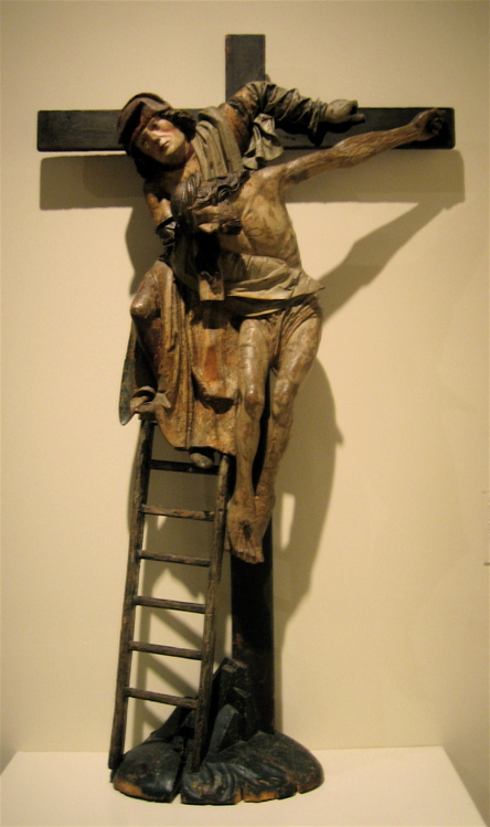 Daniel Mauch (circle of) (Germany, Ulm, 1477 - 1540) Descent from the Cross, circa 1515 Sculpture, Polychromed linden wood, 70 x 40 1/4 x 10 in. (177.8 x 102.24 x 25.4 cm) Gift of Mrs. William May Garland and John Jewett Garland in memory of William May Garland (M.50.3) Wikipedia Loves Art at the Los Angeles County Museum of Art This photo of item # M.50.3 at the Los Angeles County Museum of Art was contributed under the team name "artifacts" as part of the Wikipedia Loves Art project in February 2009. Los Angeles County Museum of Art The original photograph on Flickr was taken by Beesnest McClain—please add a comment to the original Flickr page whenever a use has been made on Wikipedia or another project. Project galleries on Flickr: this institution, this team